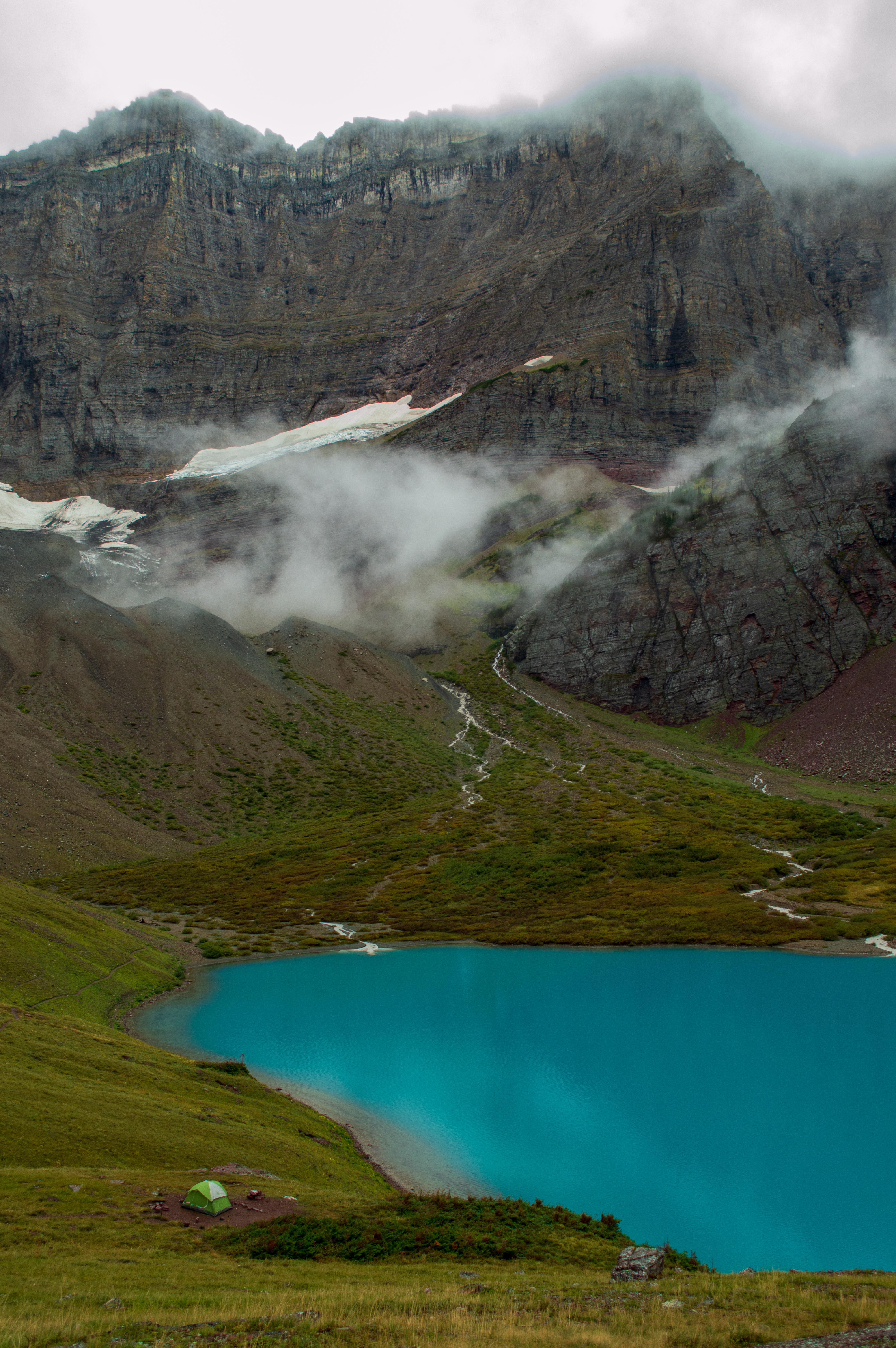 A single tent resides on the shore of Cracker Lake at Glacier National Park in Montana. "Glacial flour", which is seen pouring into the lake in this image and becomes suspended in Cracker Lake's water when it flows from the mountains, is what gives this lake a natural turquoise color. This campground is an approximate 6 mile hike from its trailhead at Many Glacier Hotel and has three sites.